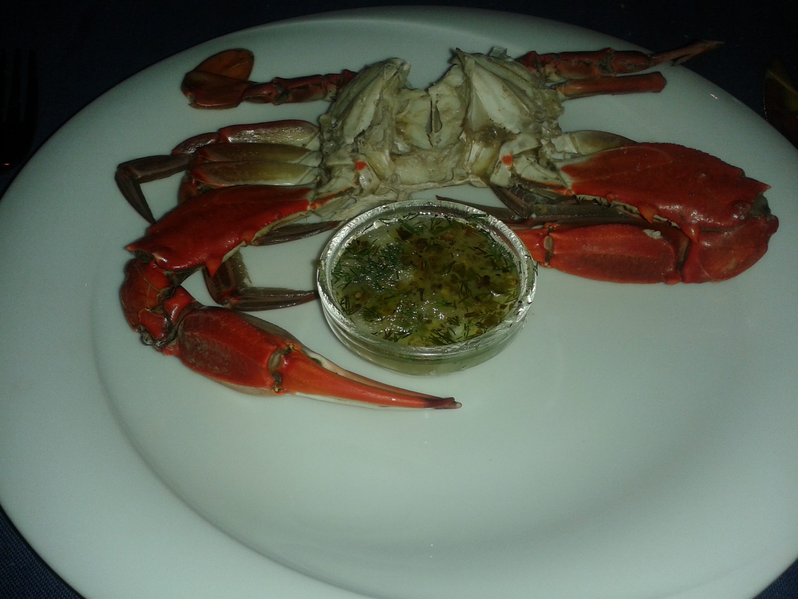 Blue crab from Dalyan (between the Aegean Sea and the Köyceğiz lake) at a local restaurant, September 2016.